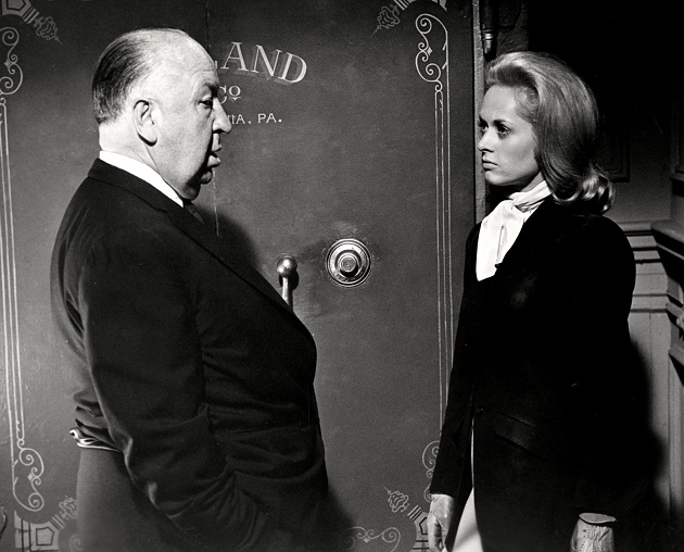 Alfred Hitchcock & Tippi Hedren publicity photo for the film Marnie, 1964, Photographer: Bob Willoughby